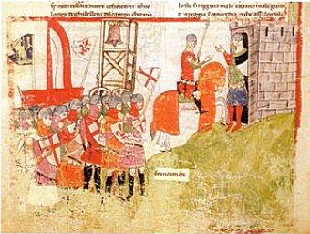 folcieri da Cavoli